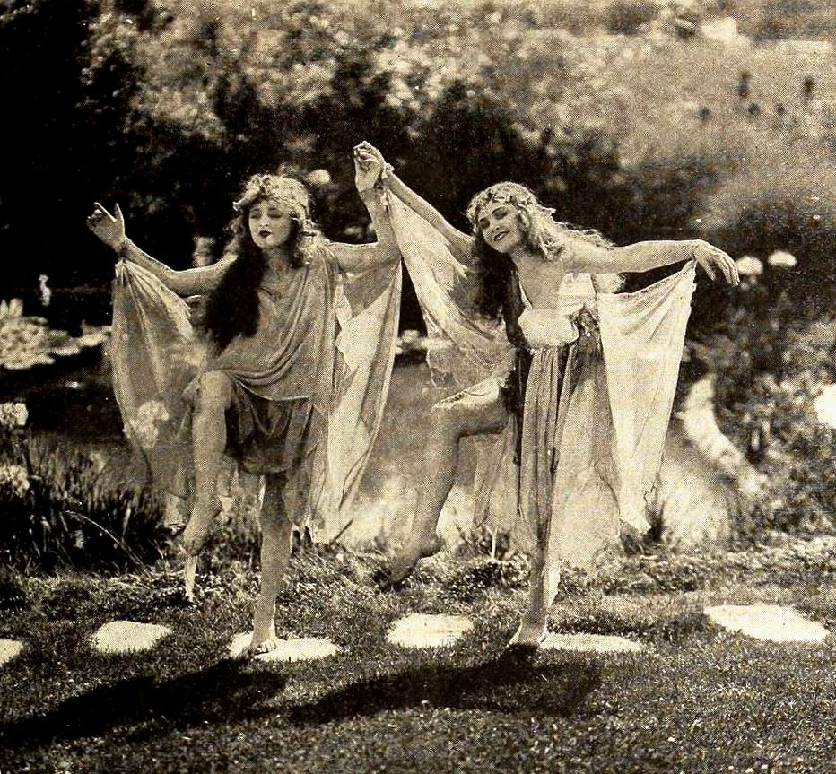 American actresses Evelyn Nelson and Blanche White, on page 23 of the October 1919 Film Fun. The caption states that the two are members of the Bull's Eye Follies.